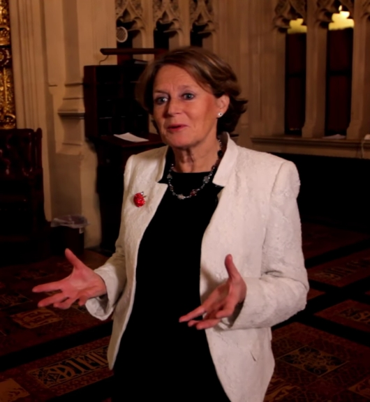 The Right Honourable Anne Caroline Jenkin, Baroness Jenkin of Kennington, gives a video tour of the House of Lords.